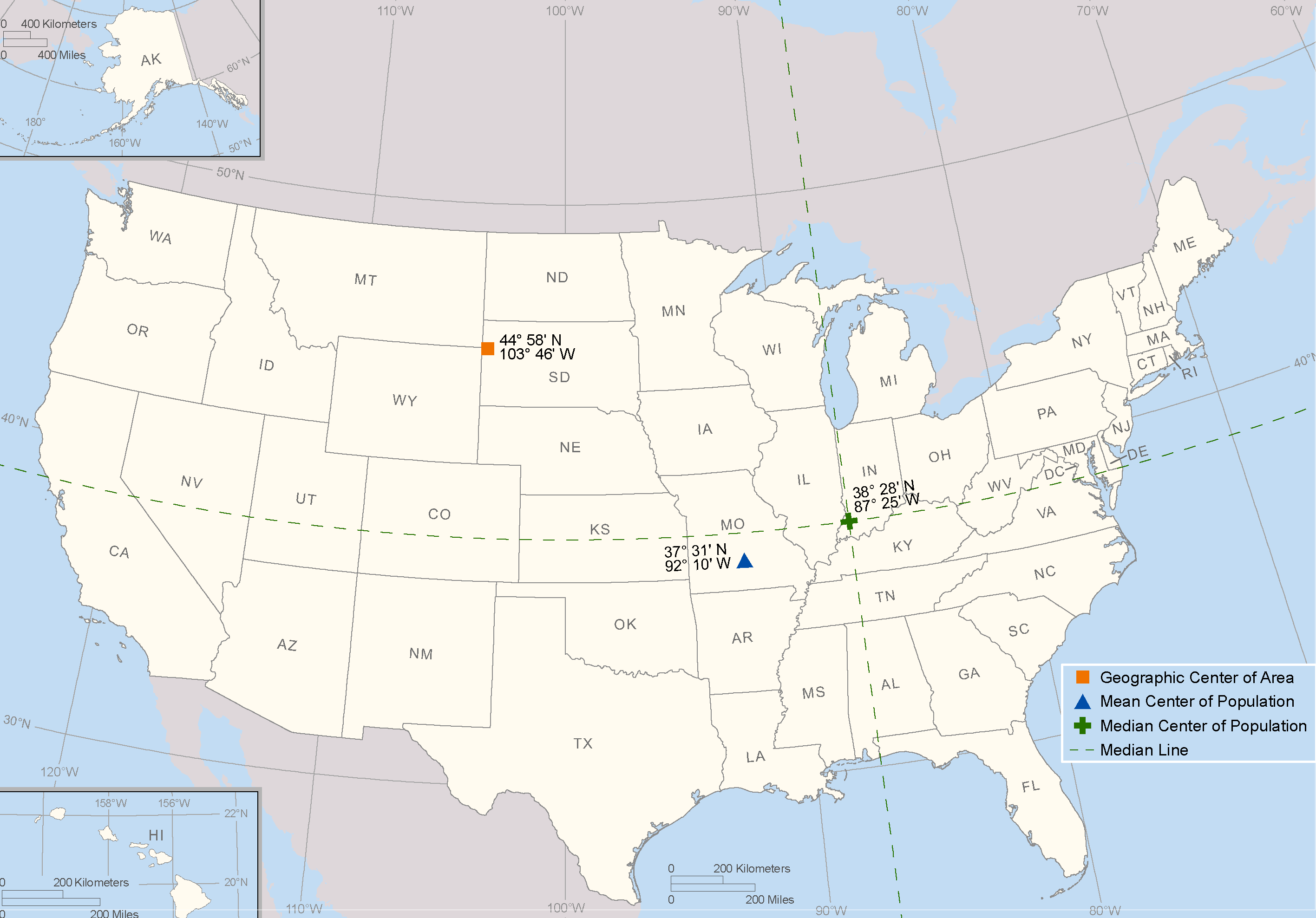 Map of the Position of the U.S. Geographic Center of Area, Mean Center of Population, and Median Center of Population, 2010